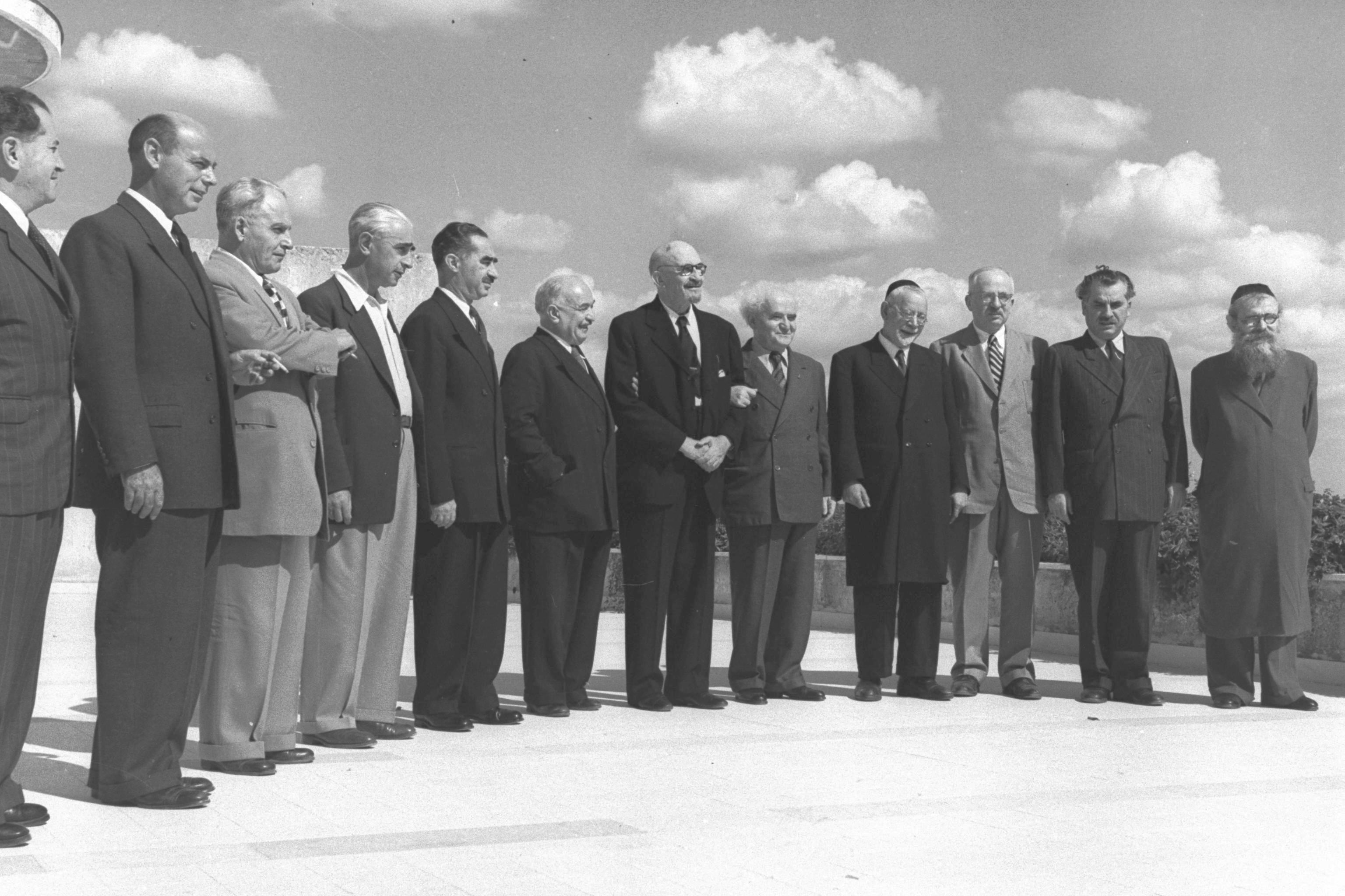 The second Israeli government at the president's house in Rehovot. Left to Right: ZEEV SHAREF (cabinet secretary), J.GERI, B.SHETRIT, P.LUBIANIKER, D.JOSEPH, D.REMEZ, PRES. WEIZMAN, P.M. DAVID BEN GURION, J.L. MAIMON, P.ROSEN, M.SHAPIRA, I.M.LEVIN.